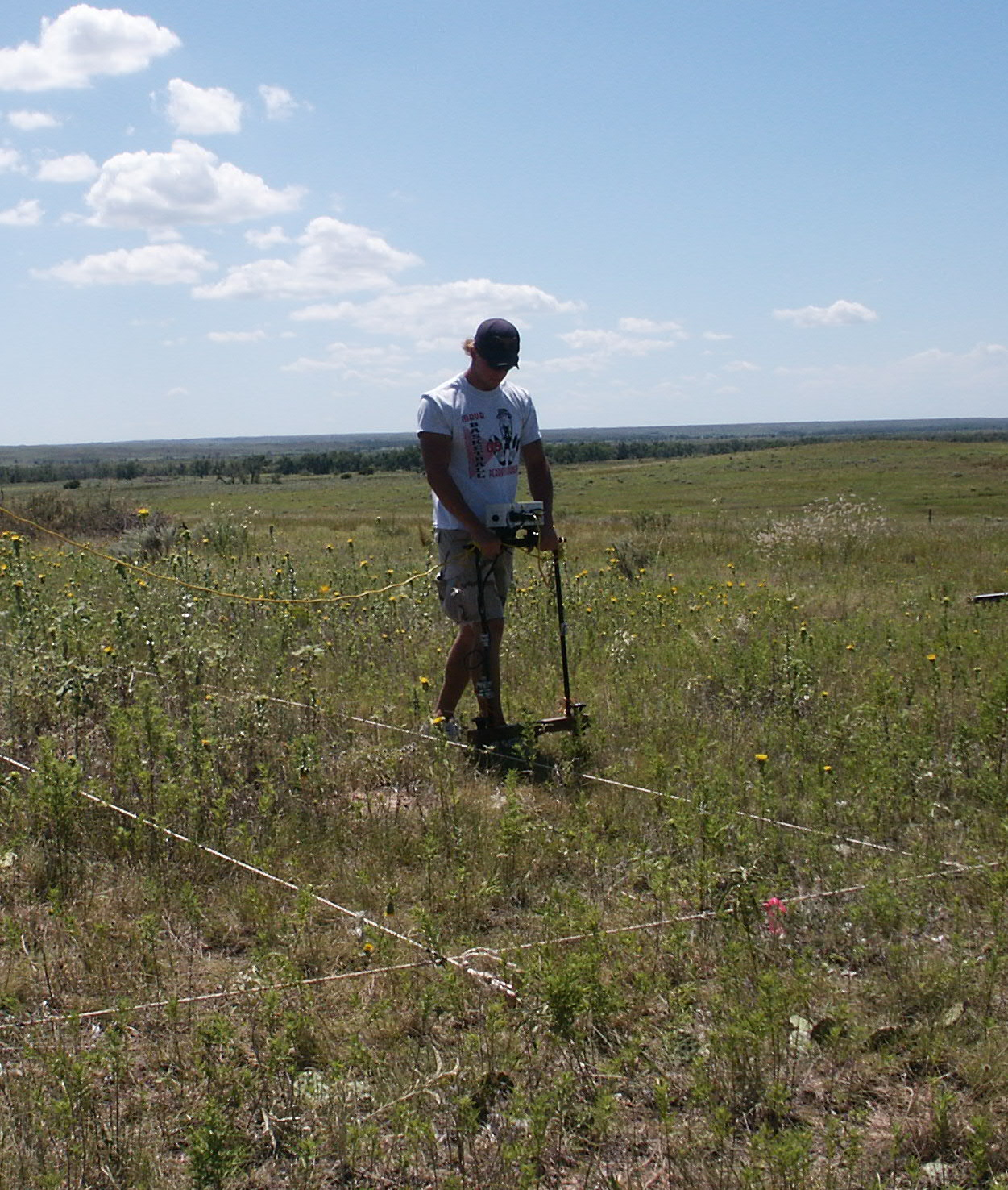 Electrical resistance survey of an archaeological site using a twin-probe array. Note the yellow trailing cable connecting the survey probes to the remote probes. The ropes on the ground are marked at regular intervals, and are used to guide the operator during data collection. The console on the top of the frame controls data acquisition and stores data for download to a computer.